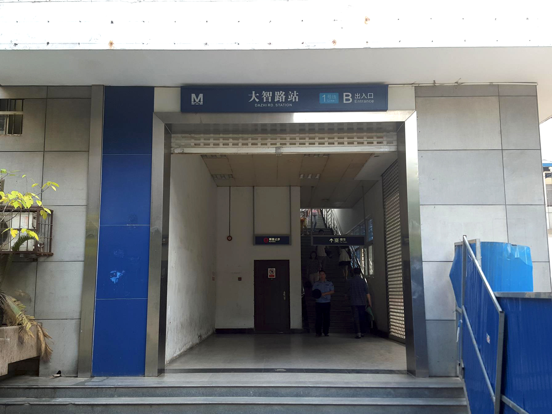 Entrance B of Dazhi Road Station, Wuhan Metro